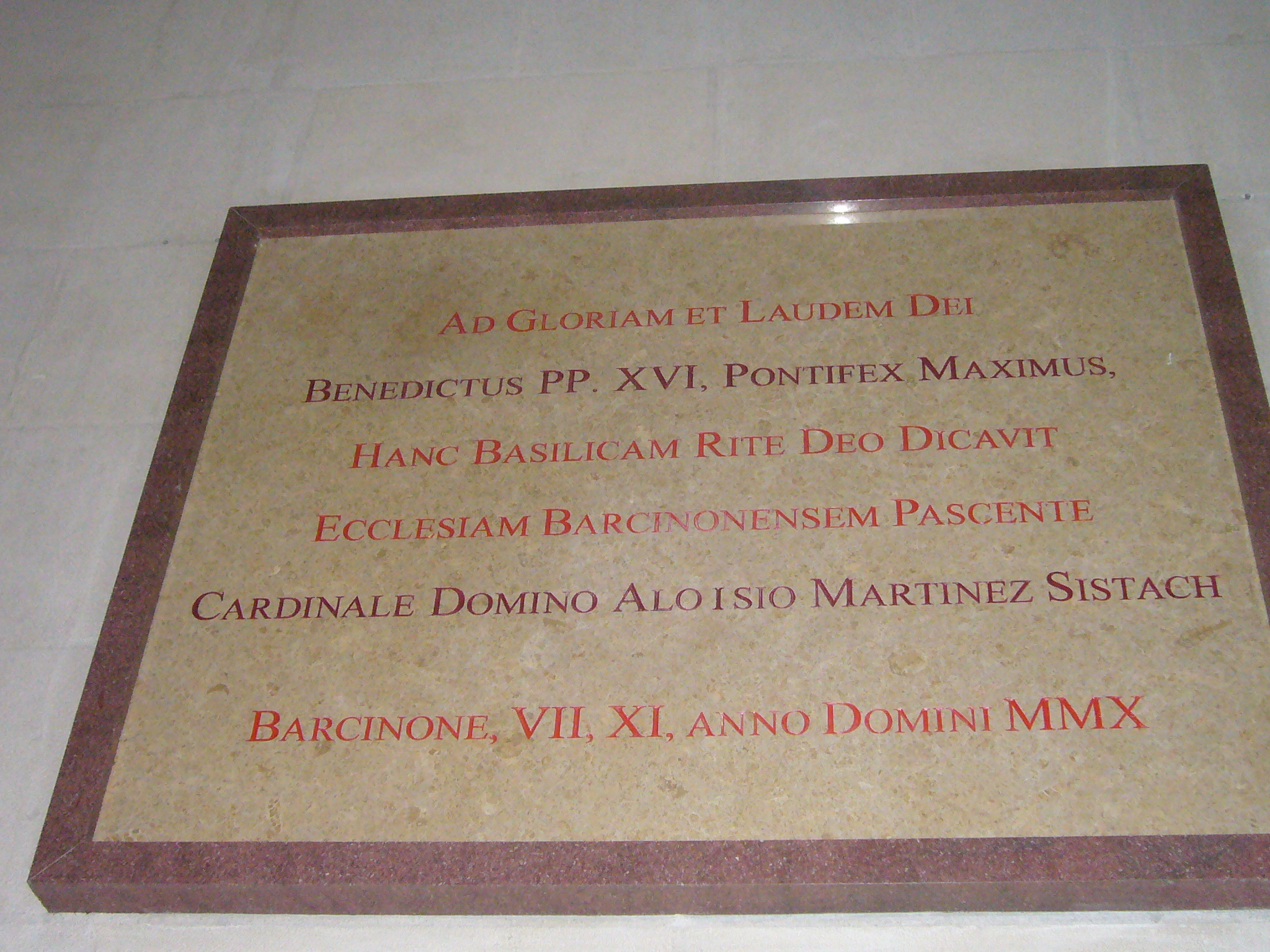 Plaque, in Latin language, at the interior of the Sagrada Família. Plaque inaugurated by Pope Benedict XVI and cardinal Sistach on November, 7, 2010